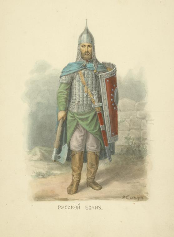 A Russian warrior.